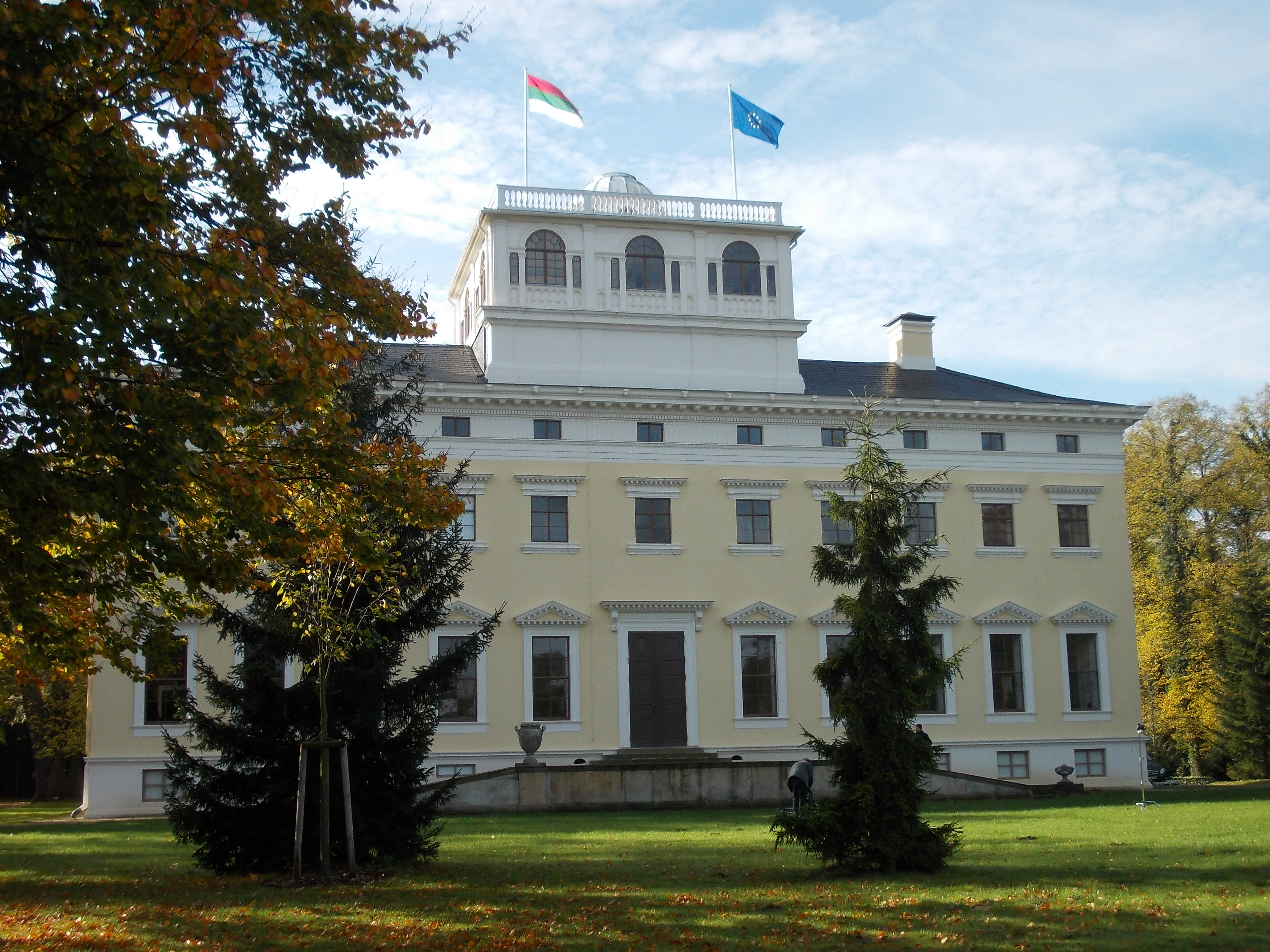 Wörlitz Castle